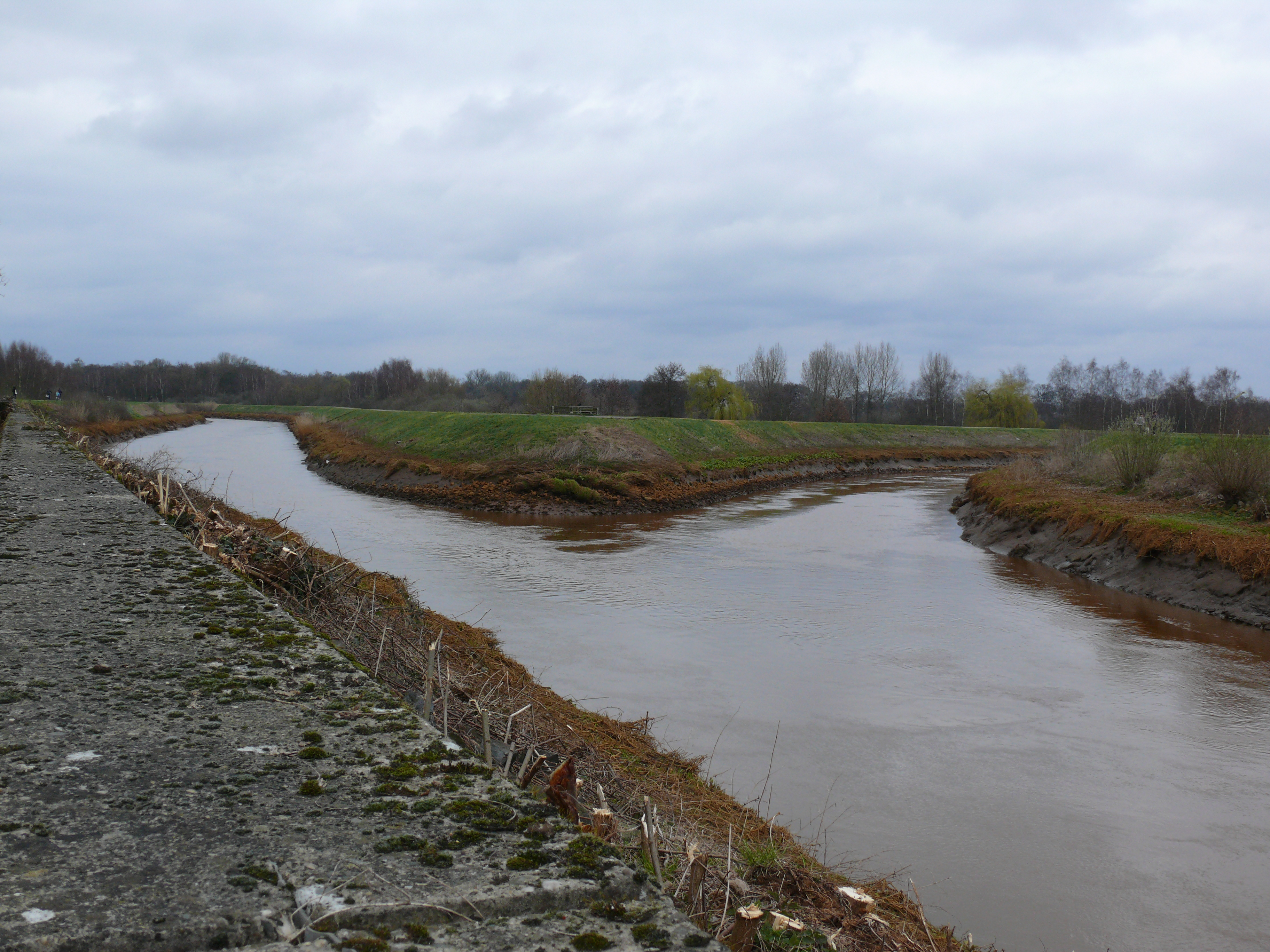 The confluence of the Kleine Nete and the Grote Nete at Lier, Belgium, where they become the Nete